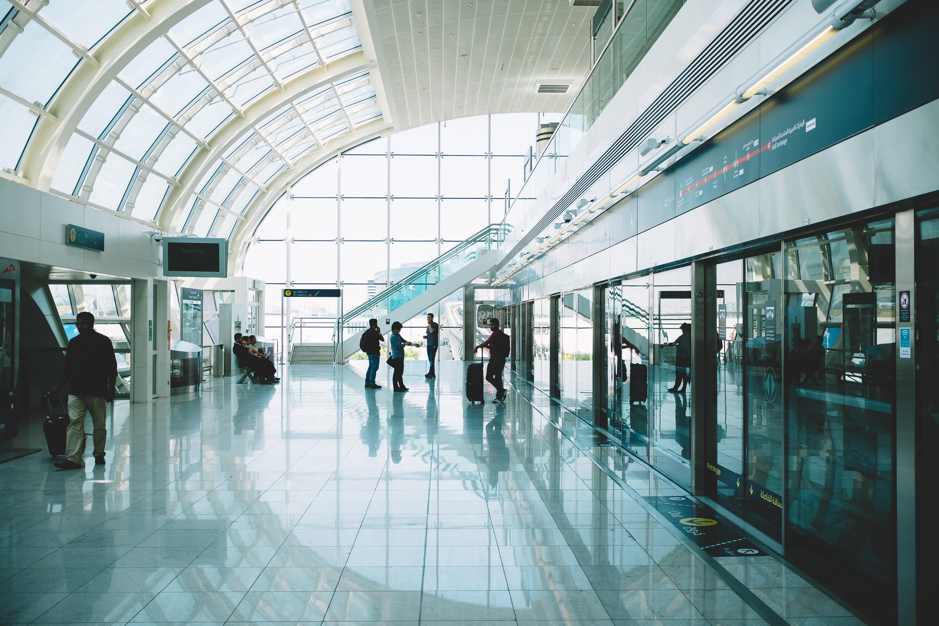 Dubai, United Arab Emirates